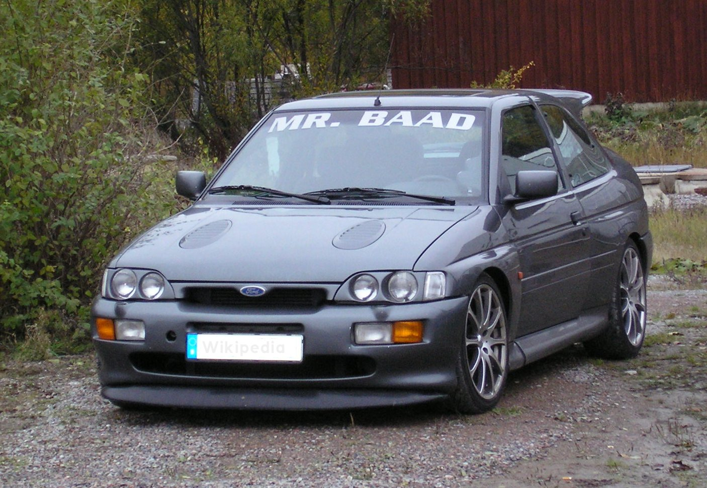 1992 Ford Escort 2.0 Cosworth